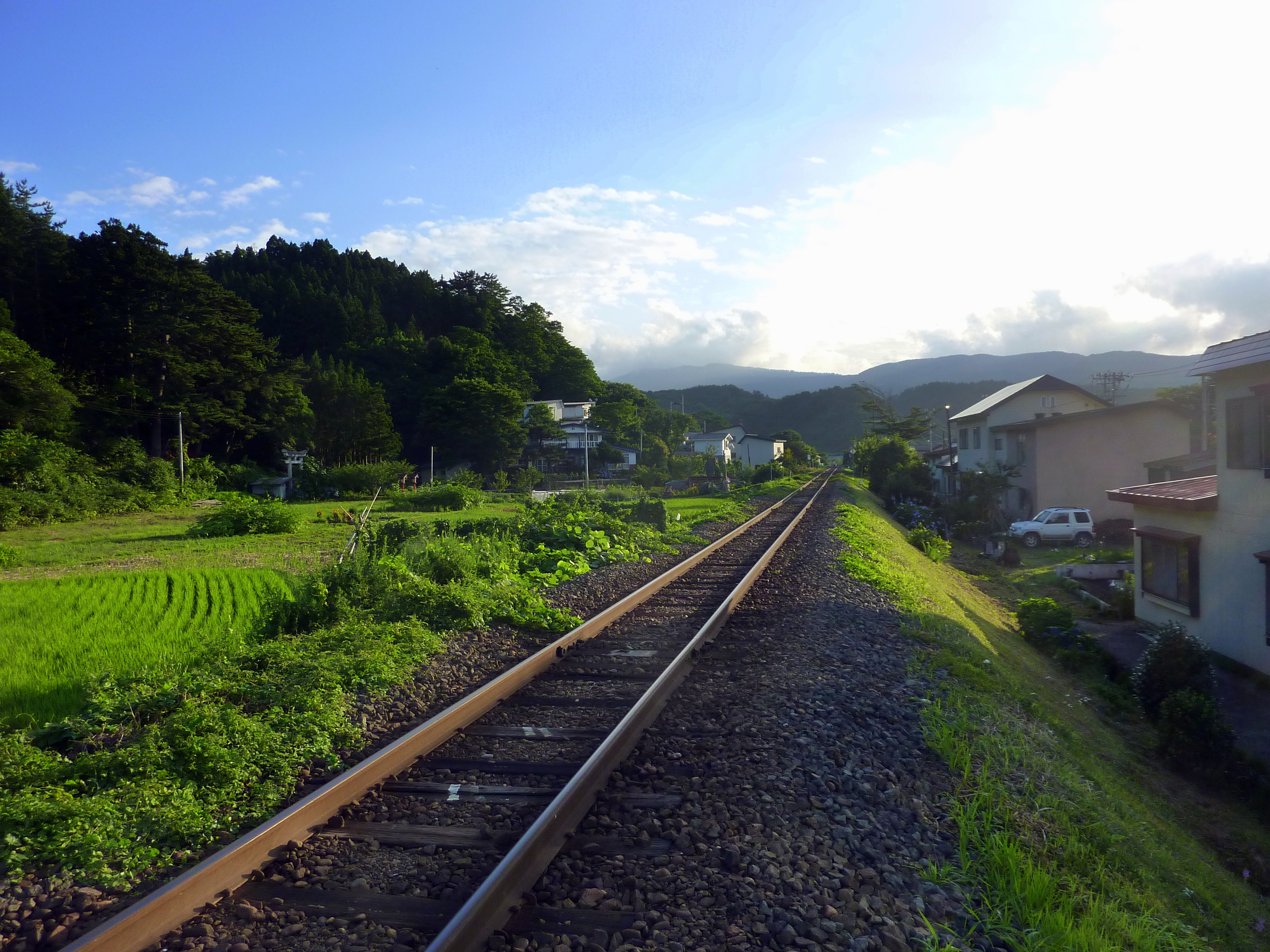 Fukaura near Mutsu yanagita